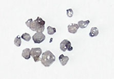 Crystalline AgCl obtained from ammonia solution. Small greyish crystalls aside are due to partly reduced silver. The biggest crystall is circa 1 mm across.